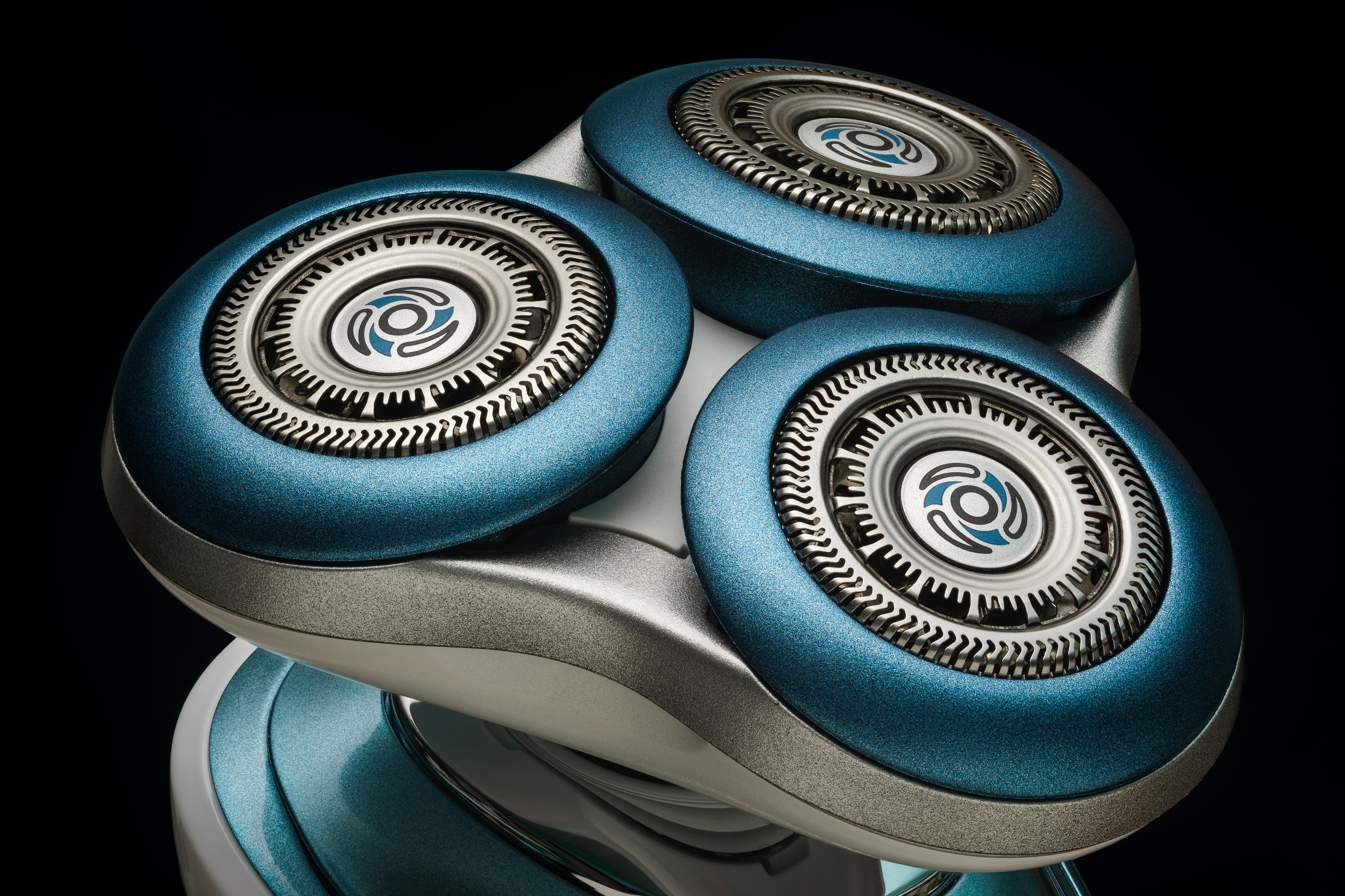 Philips Series 7000 Wet & Dry Men's Electric Shaver S7370/12. Approx 6cm across.